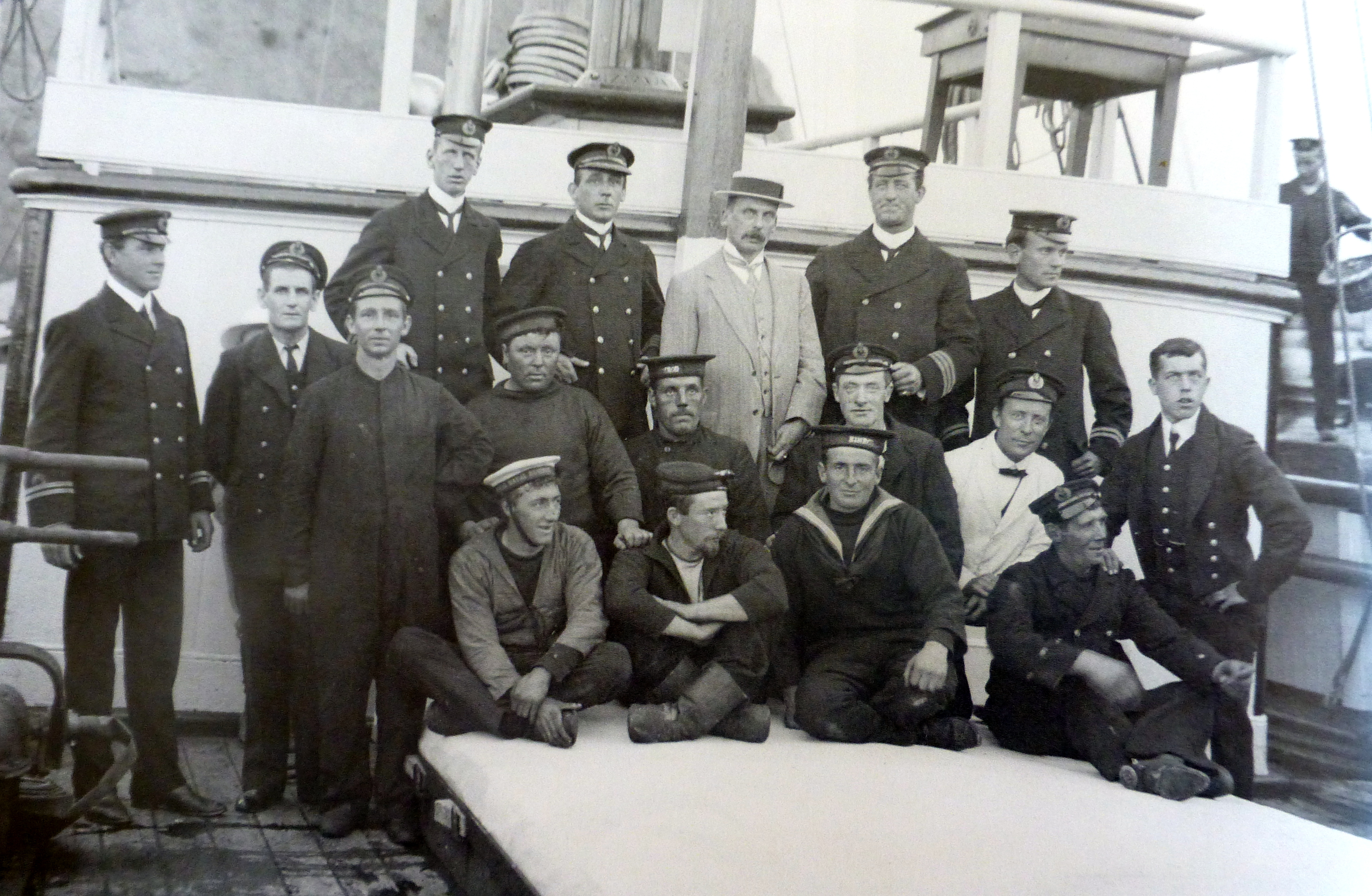 Crew of the expedition ship Nimrod